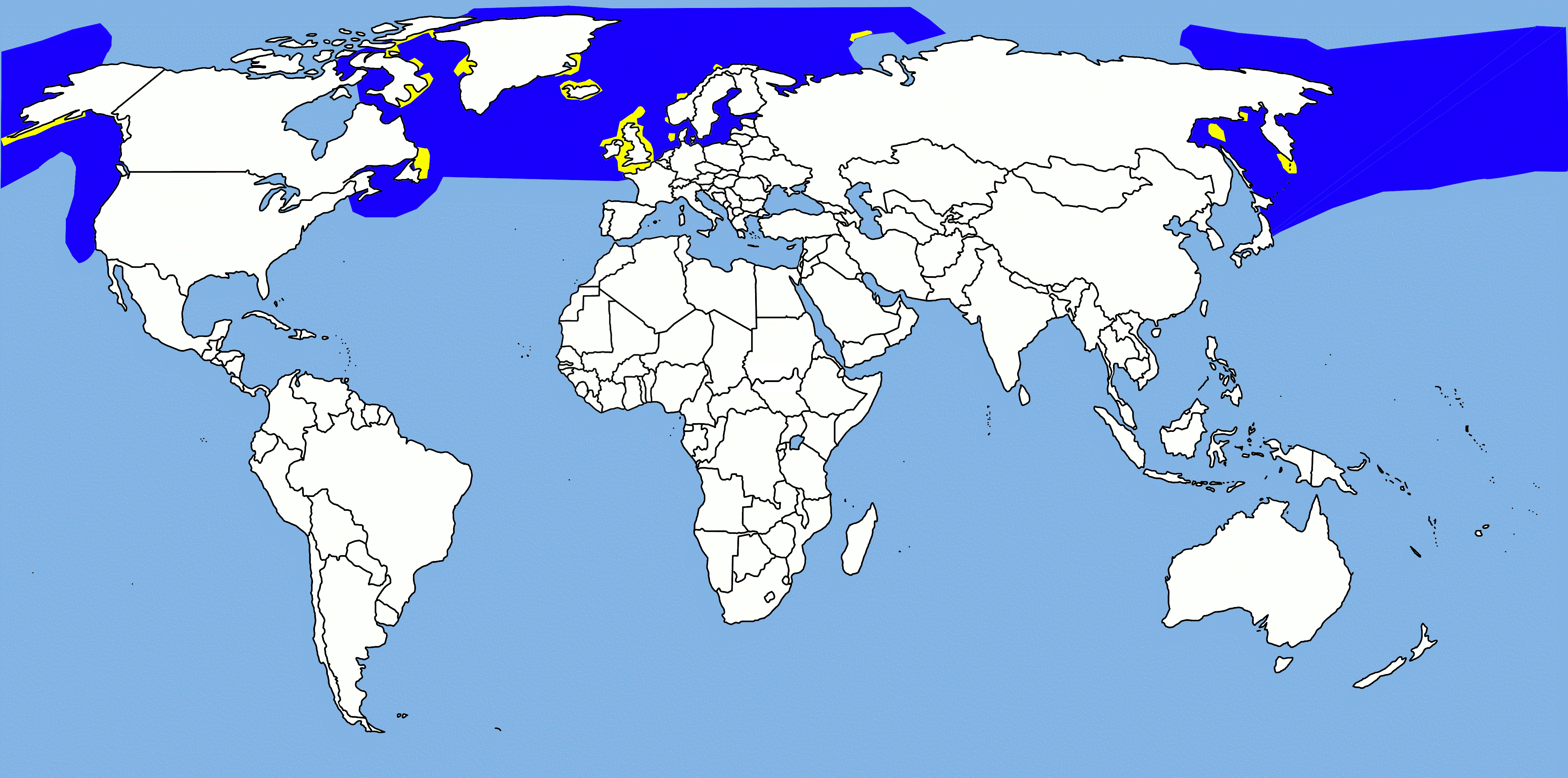 World distribution of the Northern Fulmar. Blue: wintering, yellow: breeding.